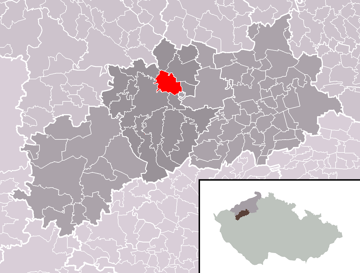 Location of Staňkovice municipality within Louny District and administrative area of Žatec as a Municipality with Extended Competence.